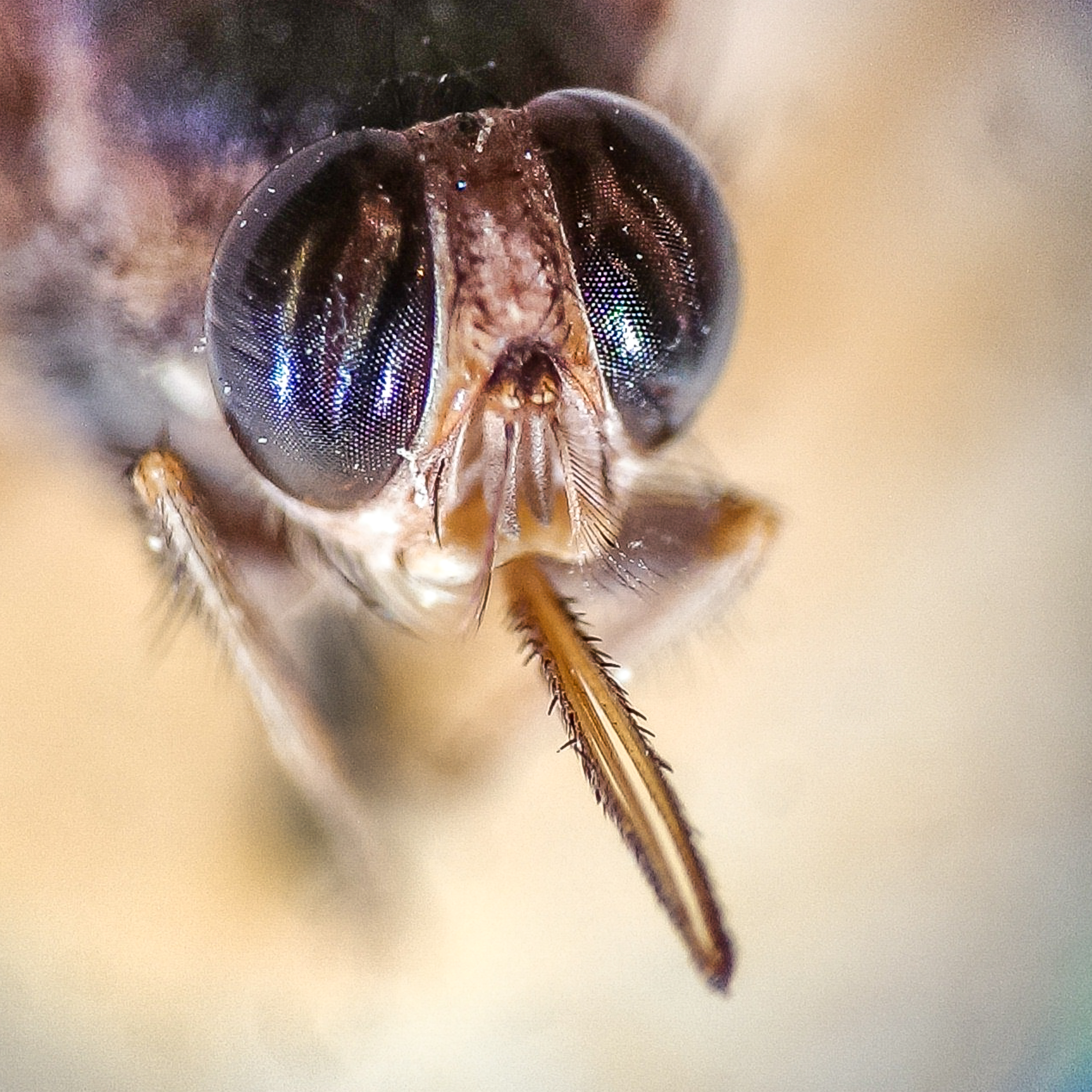 Head and mouthparts of Glossina morsitans